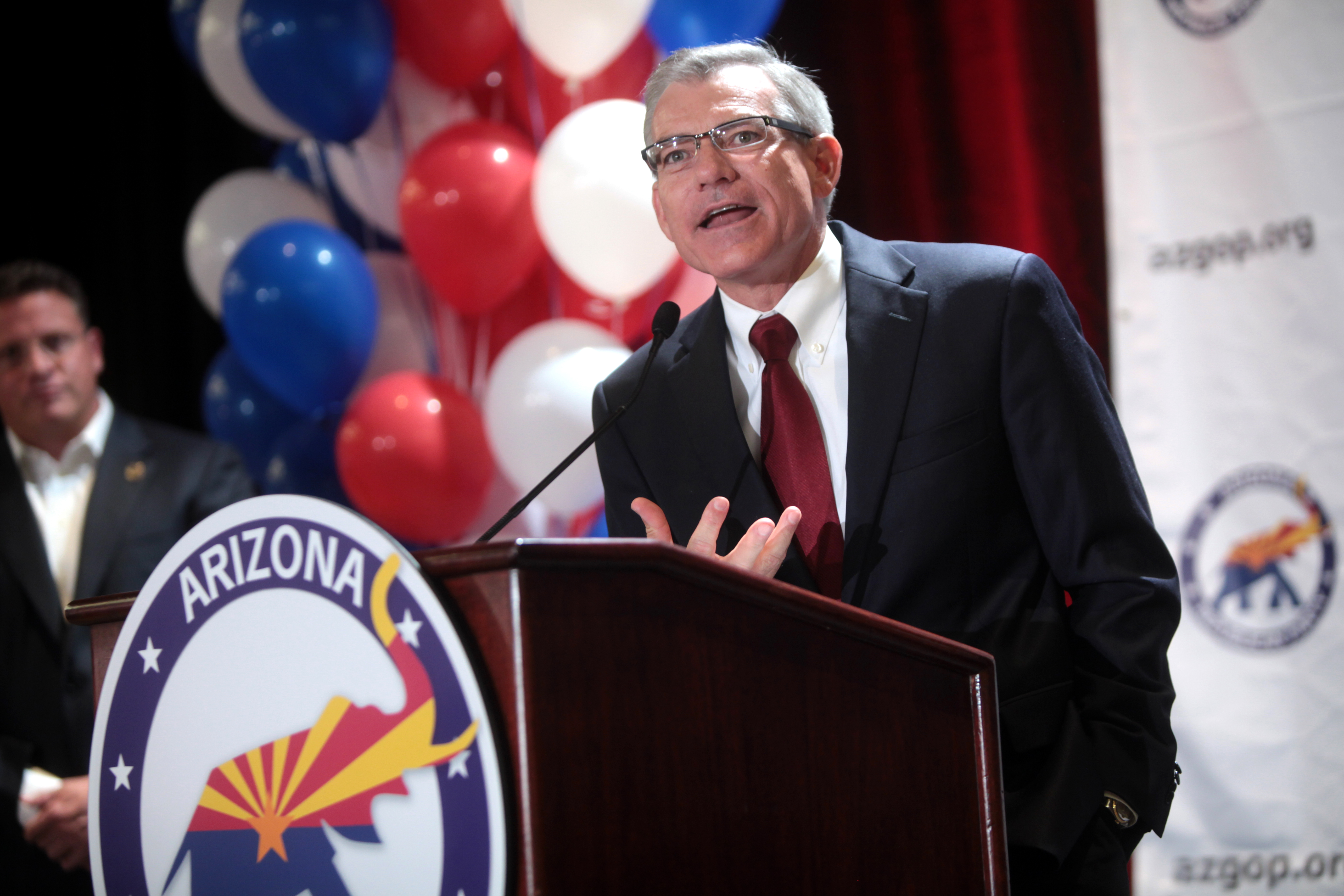 David Schweikert speaking at a campaign rally in Phoenix, Arizona.